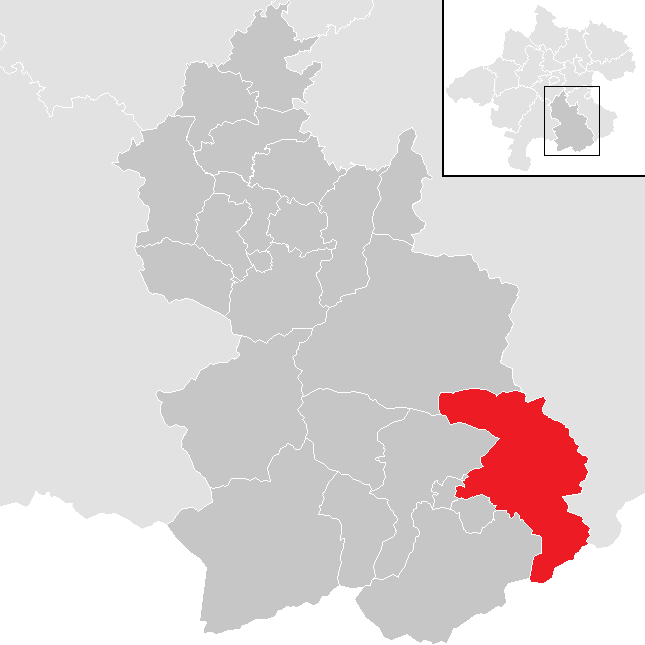 district Kirchdorf an der Krems